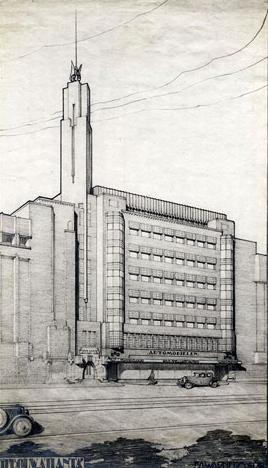 Drawing Atlanta building, Stadhouderskade 5-6 Original from Collectie NAi, archief WARS t66.3.